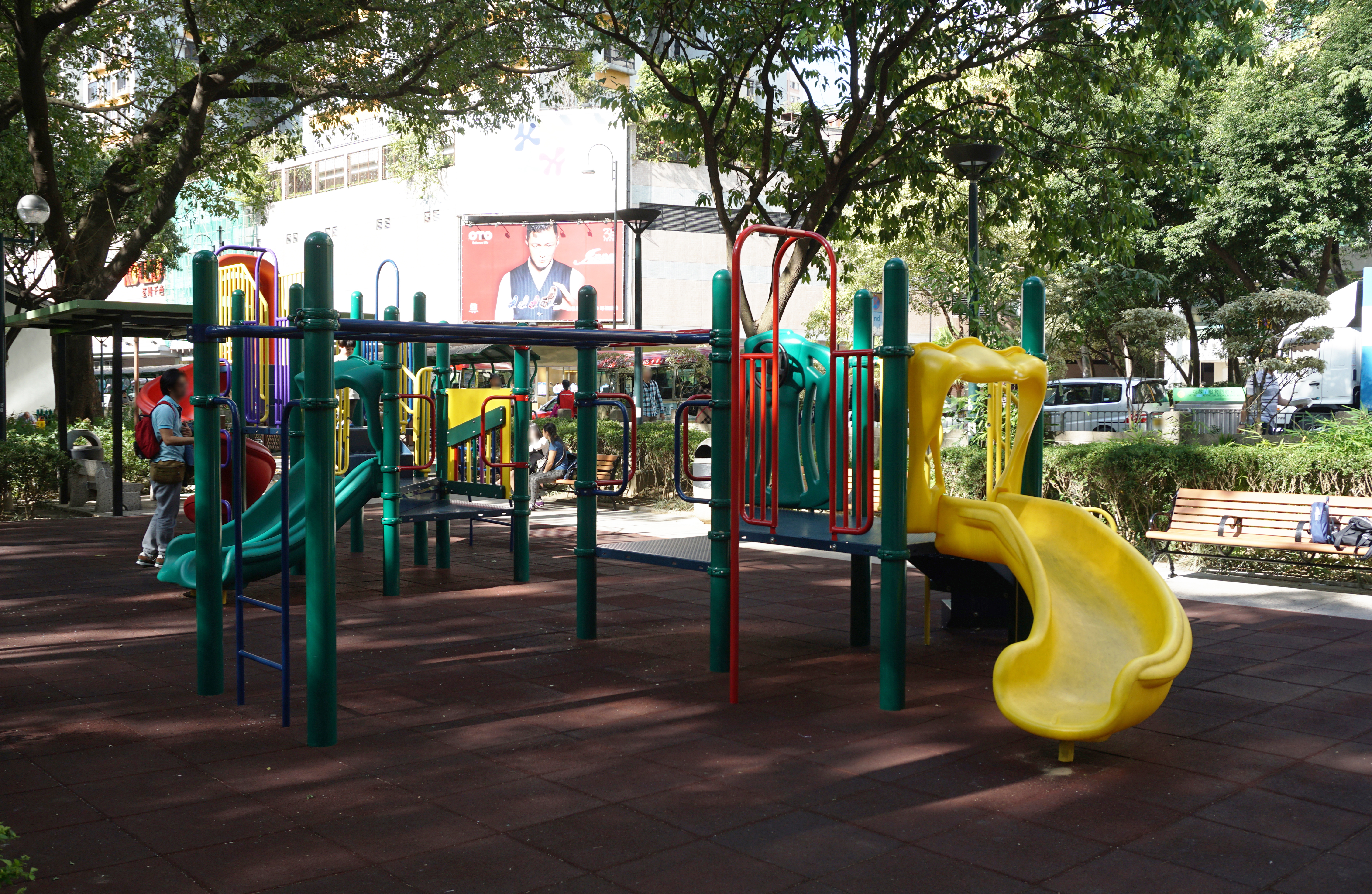 Jockey Club Tak Wah Park in Tsuen Wan, Hong Kong.